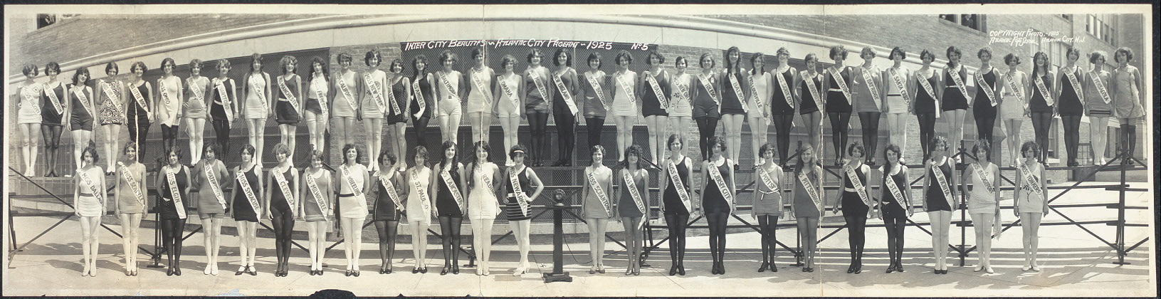 Contestants in the 1925 Miss America Pageant at Atlantic City, New Jersey.